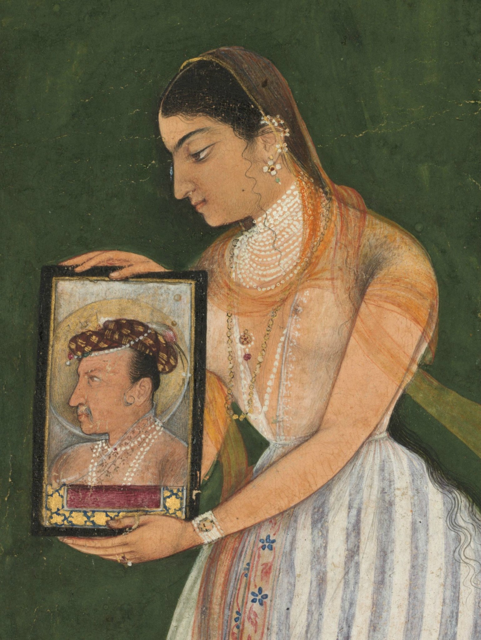 Nur Jahan holding a portrait of Emperor Jahangir, about 1627; borders added 1800s. Mughal India, opaque watercolor and gold on paper; 30 x 22.1 cm (page); 13.6 x 6.4 cm (painting), The Cleveland Museum of Art